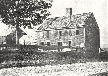 "Old Parsonage, built for the Rev. James Scales, first minister, ordained in 1757," Hopkinton, NH; from "The Settlement of a Town," an article in Granite Monthly Magazine, 1901.